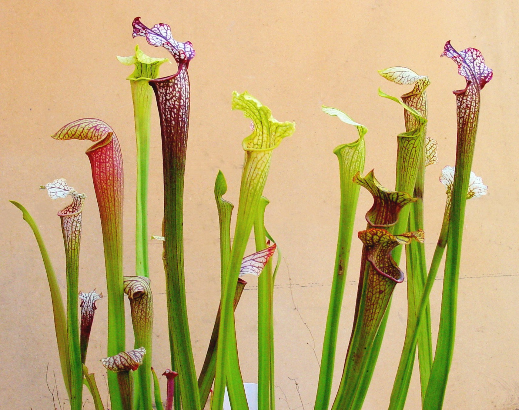 Sarracenia species and natural hybrids from a single bog in AL. Location: Plants from collection of Steve Millar